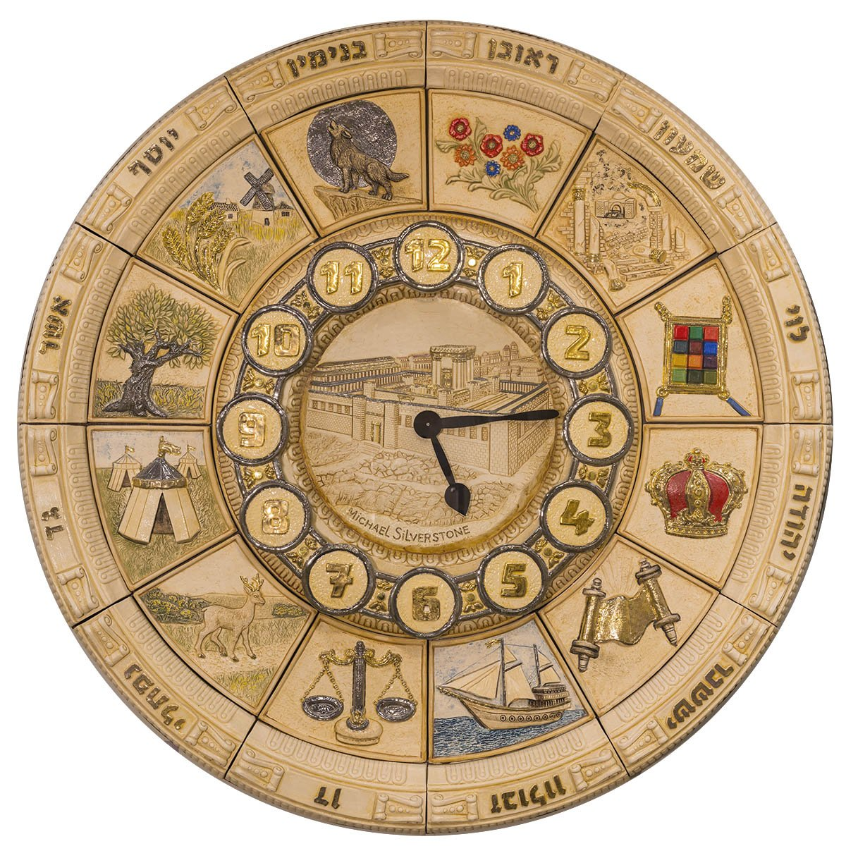 A clock sculpted in ceramics. The clock displays the symbols of the Twelve Tribes. Reuven, Shimon, Levi, Judah, Issachar, Zebulun, Dan, Naphtali, Gad, Asher, Joseph, and Binyamin. In the center of the clock is a relief of the Temple and the Temple Mount. Two clocks are hanging in the Western Wall plaza.